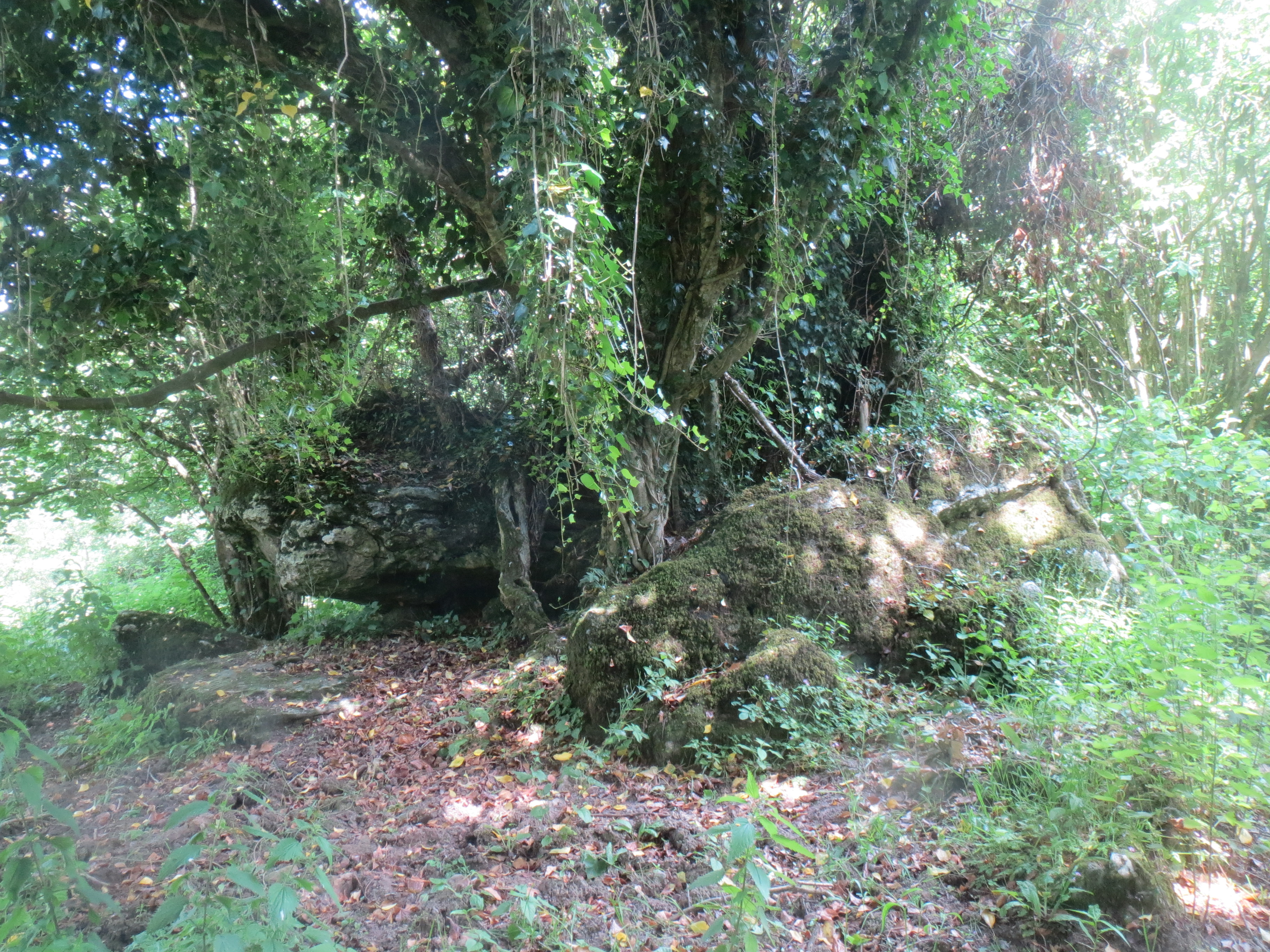 Clogher Portal Tomb